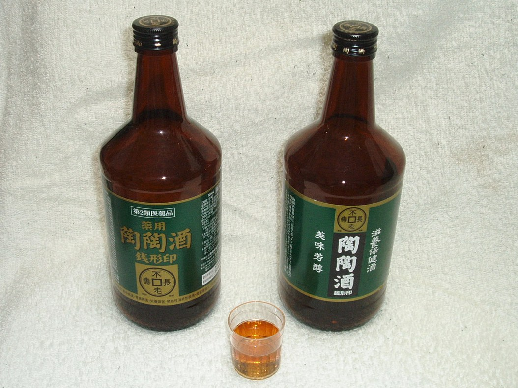 Bottles of Japanese liqueur Tohtohshu (Dry: 29% abv). Medical version (left) and non-medical version (right).